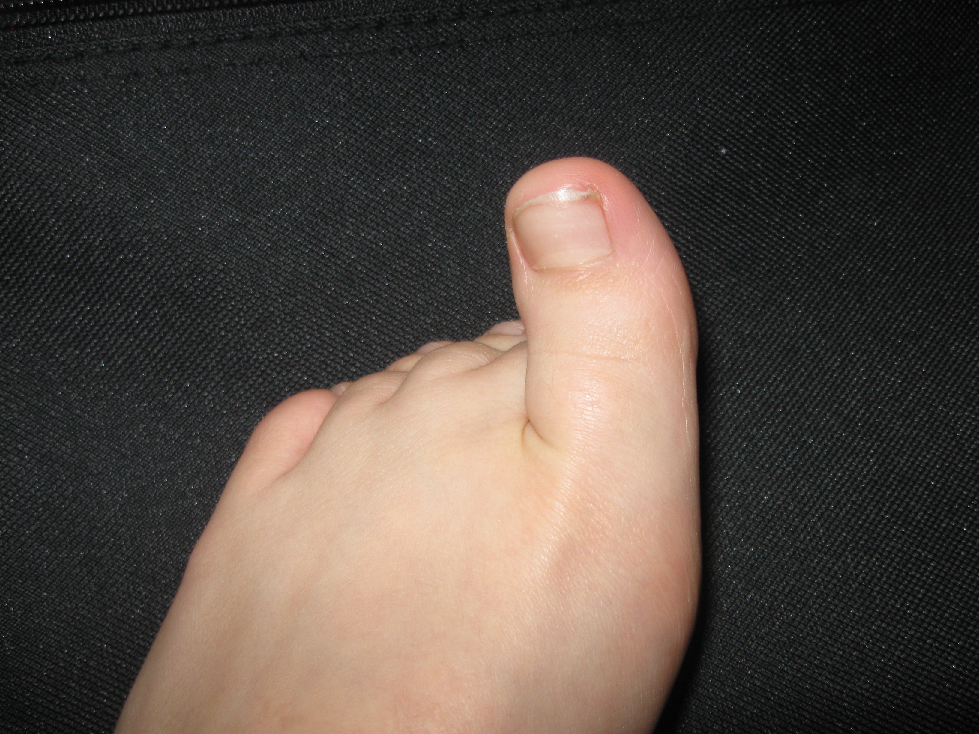 Hallux from left leg.